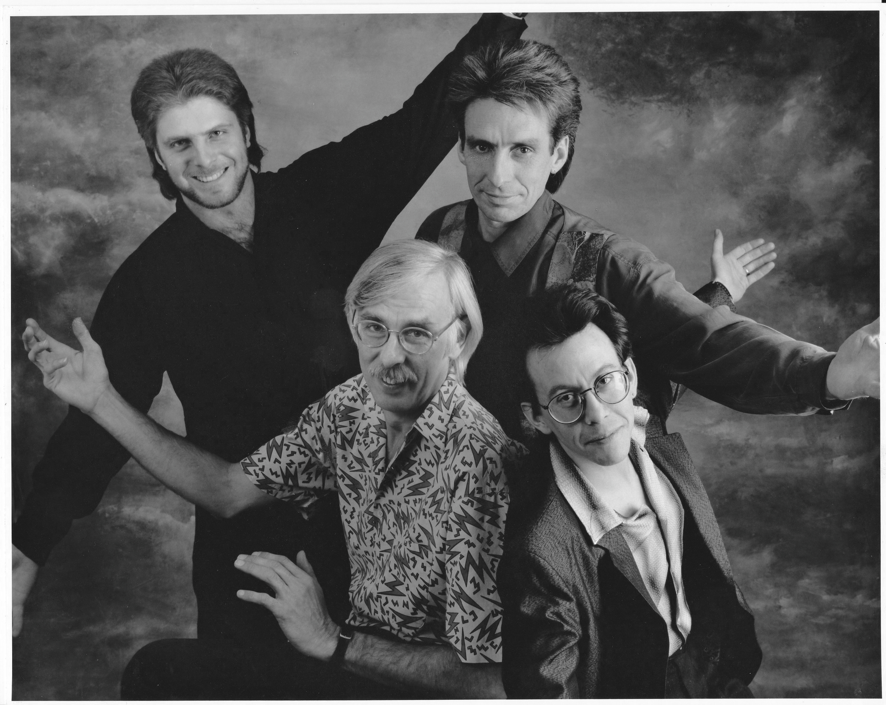 Photograph of The Kendall Wall Band